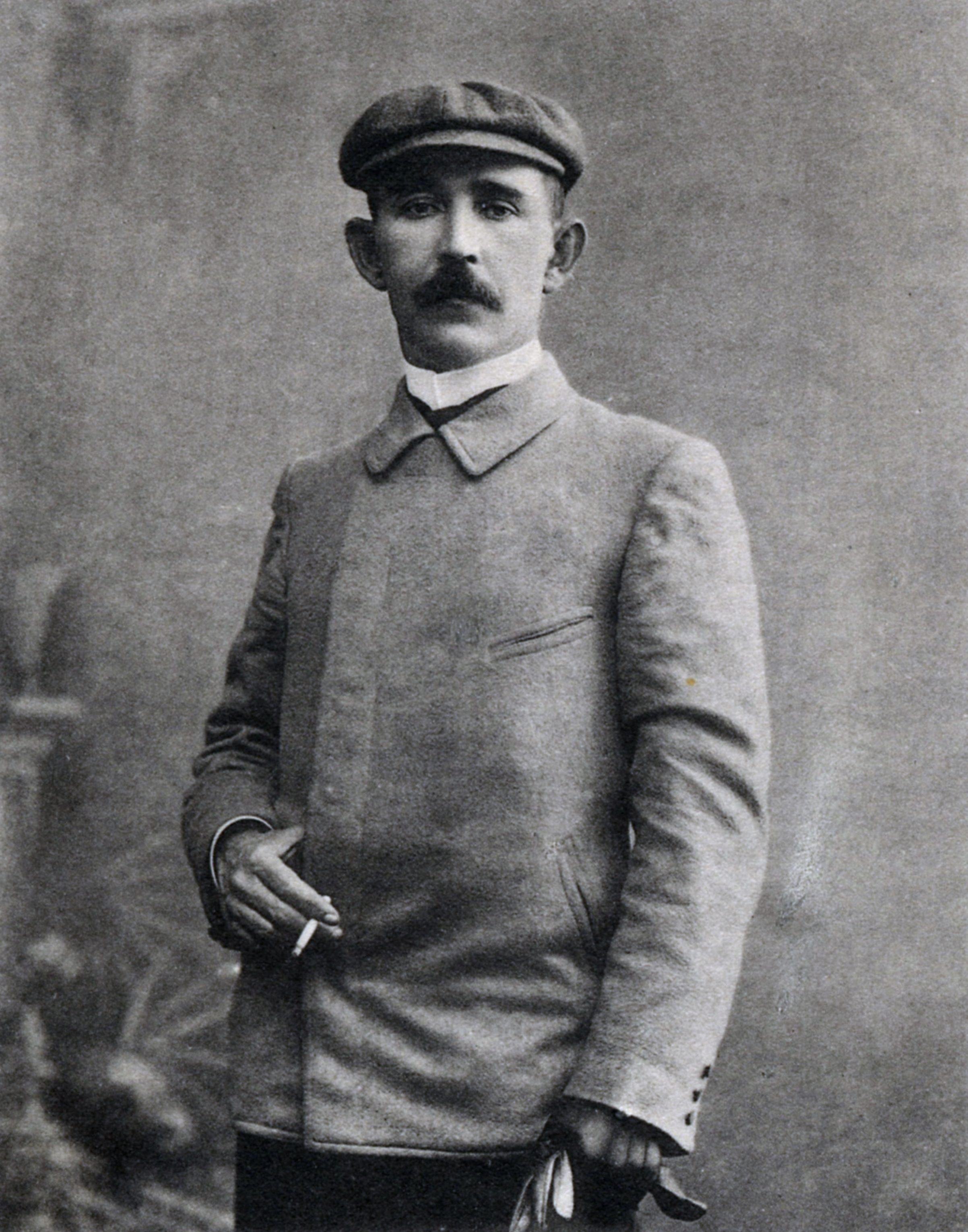 Photo of Alexei Aladjin, deputat of first Russian Duma in 1906